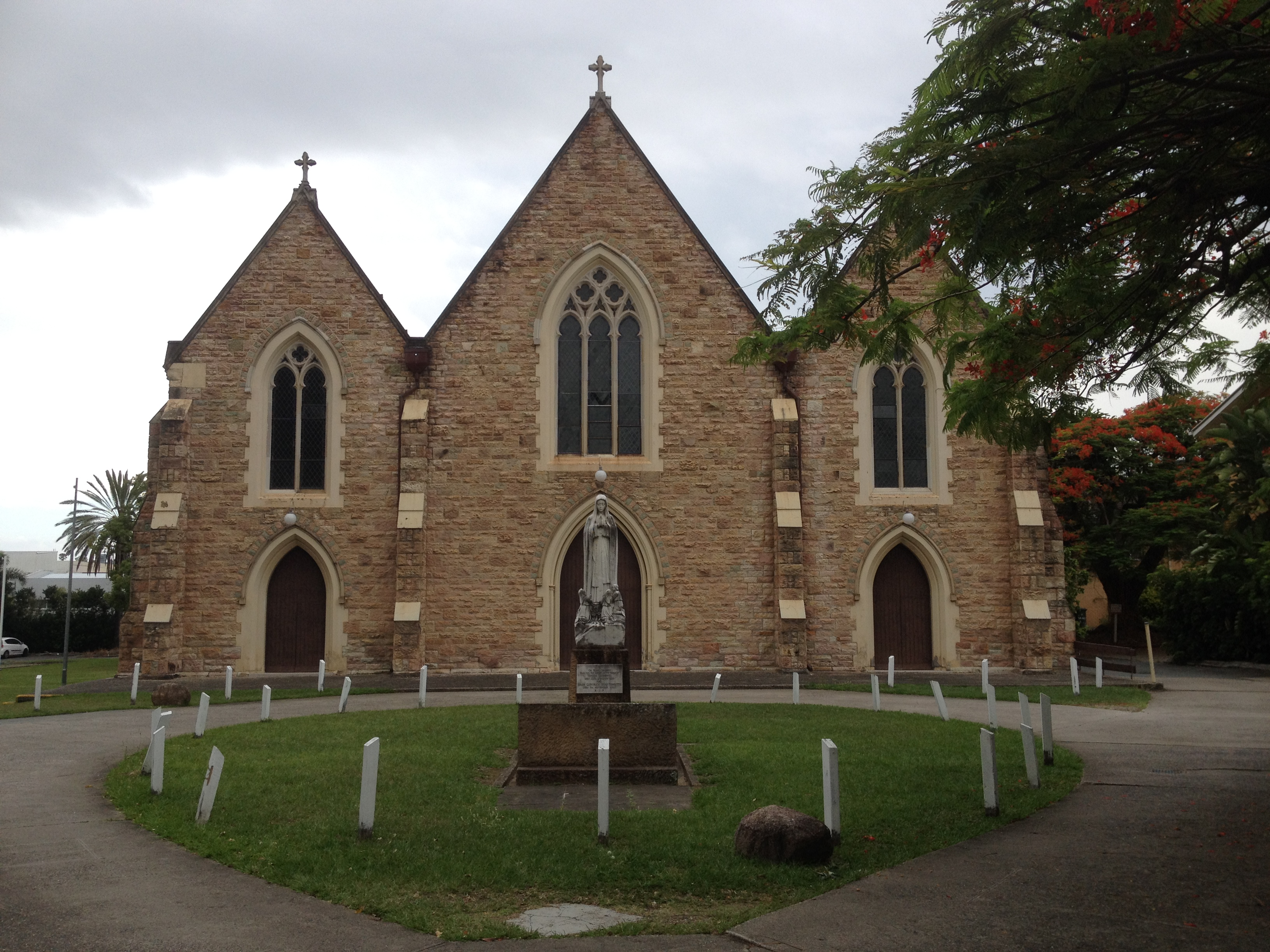 St. Patrick's Church at Morgan Street, Fortitude Valley, Brisbane